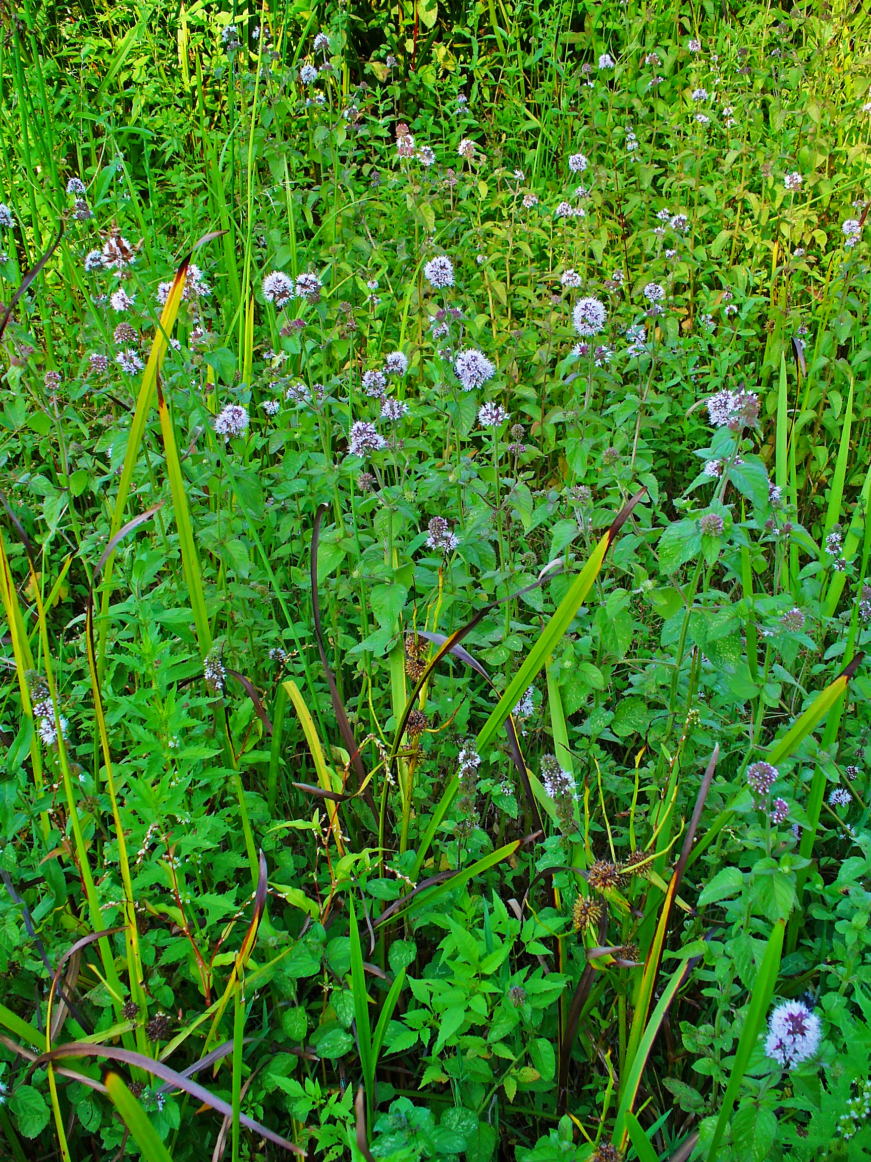 Mentha aquatica, Lamiaceae, Water Mint, habitus; Karlsruhe, Germany.